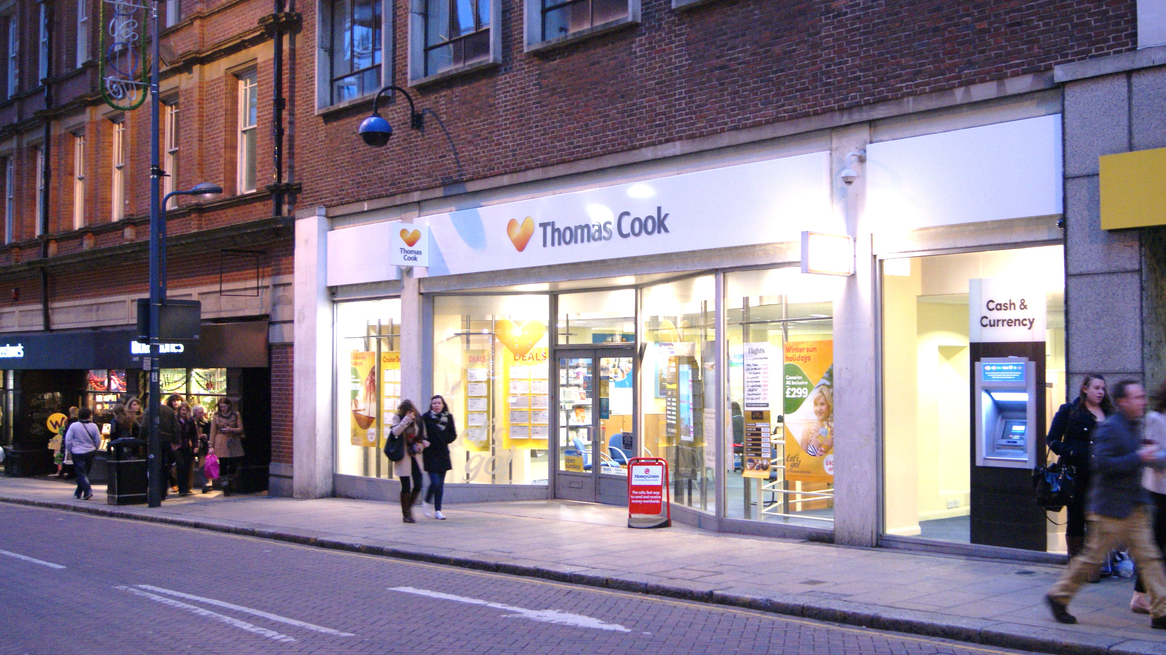 Thomas Cook, Albion Street, Leeds, West Yorkshire. Taken on the afternoon of Saturday the 16th of November 2013.